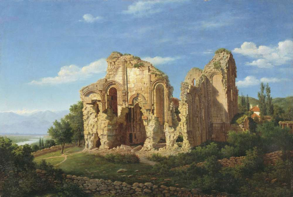 Ruins of the Bagrati cathedral in Georgia.